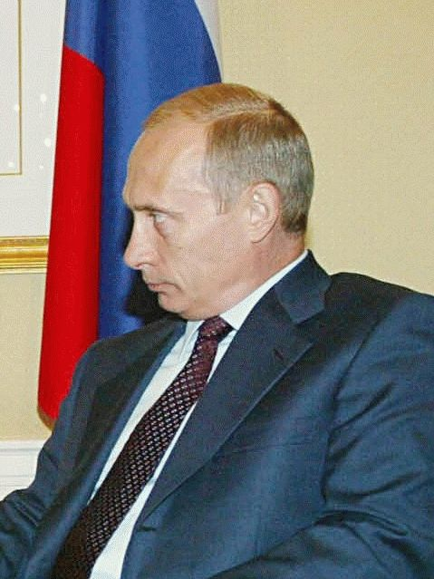 President Vladimir Putin of Russia. Photograph copied from the website of Agência Brasil, which states: The Agência Brasil makes images and photos available free of charge. To comply with existing law, we kindly request our users to list the credits as in the example: photographer's name/ABr. — A Agência Brasil disponibiliza, gratuitamente, imagens e fotos. Para cumprir a legislação em vigor, solicitamos aos nossos usuários a gentileza de registrar os créditos como no exemplo: nome do fotógrafo/ABr. This photo appeared as 9749.jpg on 24/09/2003. The photo was downloaded, cropped, and resized by Hajor. 9749.jpg. Foto Hermínio Oliveira. 24/09/2003